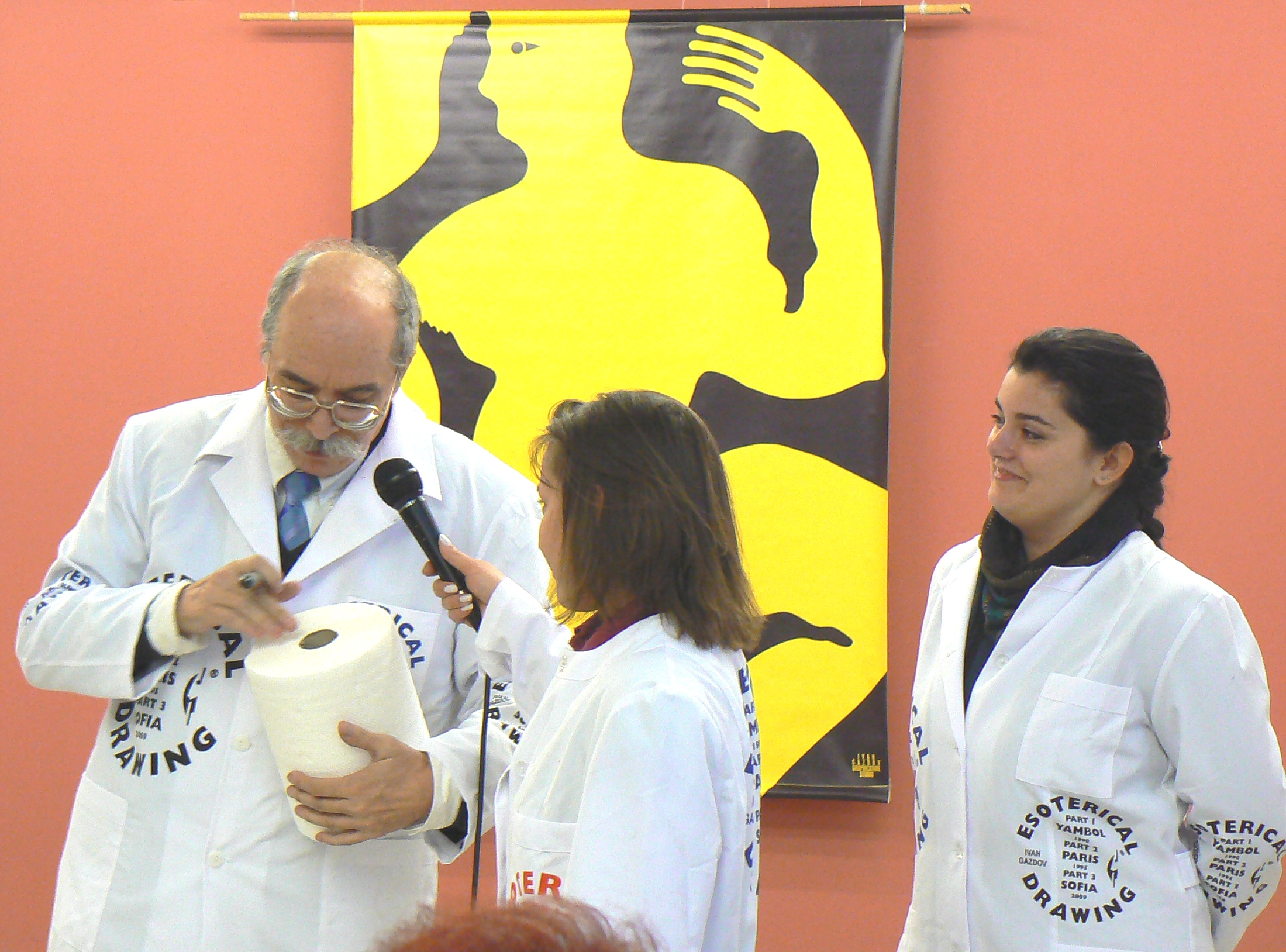 The "Esoterical drawing" performance by the Bulgarian artist Ivan Gazdov, on the presentation of his poetical book "BESTsmislici"